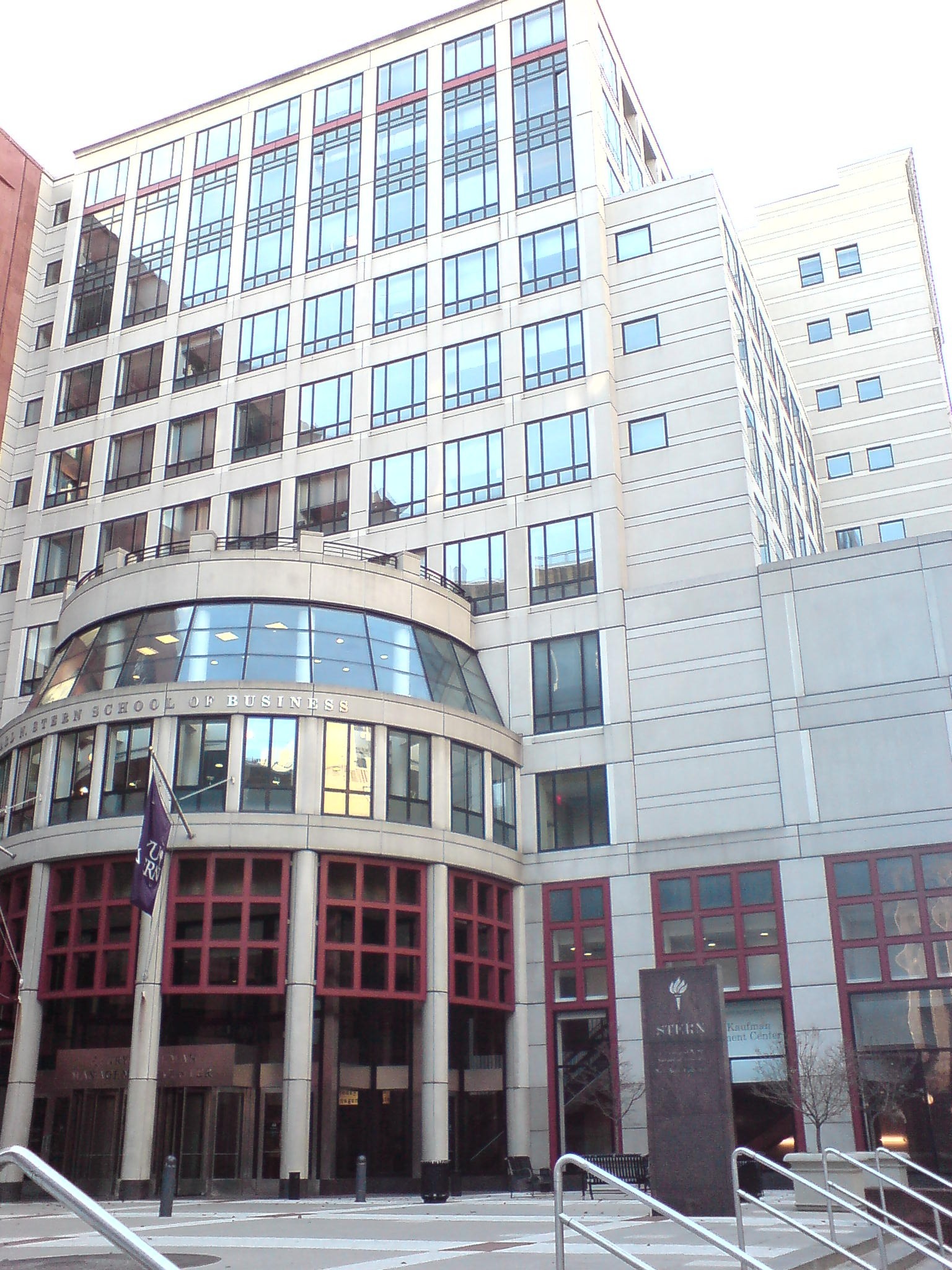 NYU Stern School of Business building in Greenwich Village, Manhattan, New York.